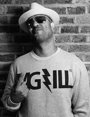 Image of the producer Lucas Secon for article page